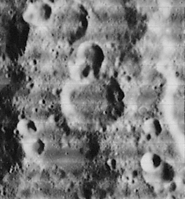 Fermat lunar crater - Lunar Prbiter - IV image LOIV-089-H1.